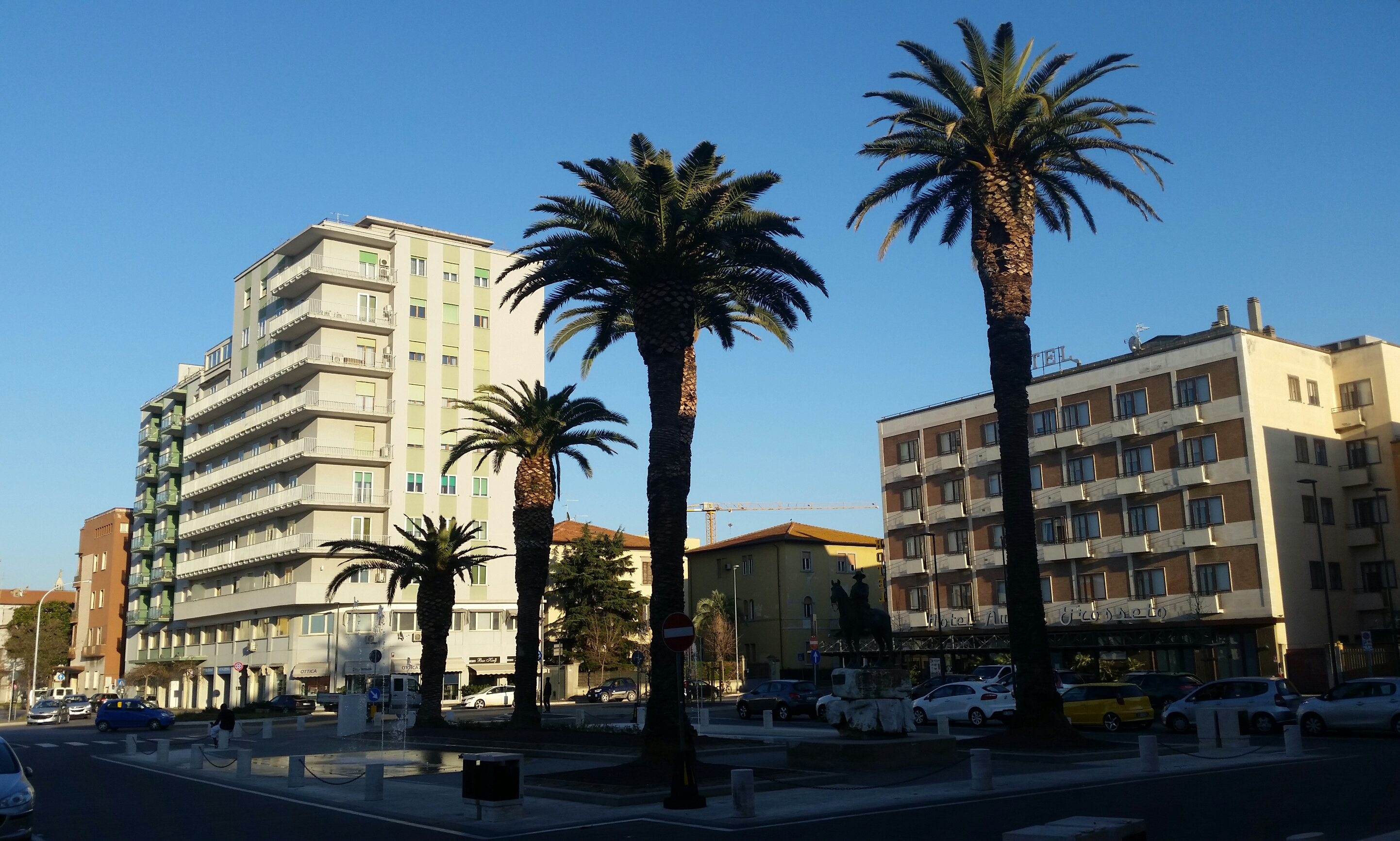 Piazza Marconi in Grosseto